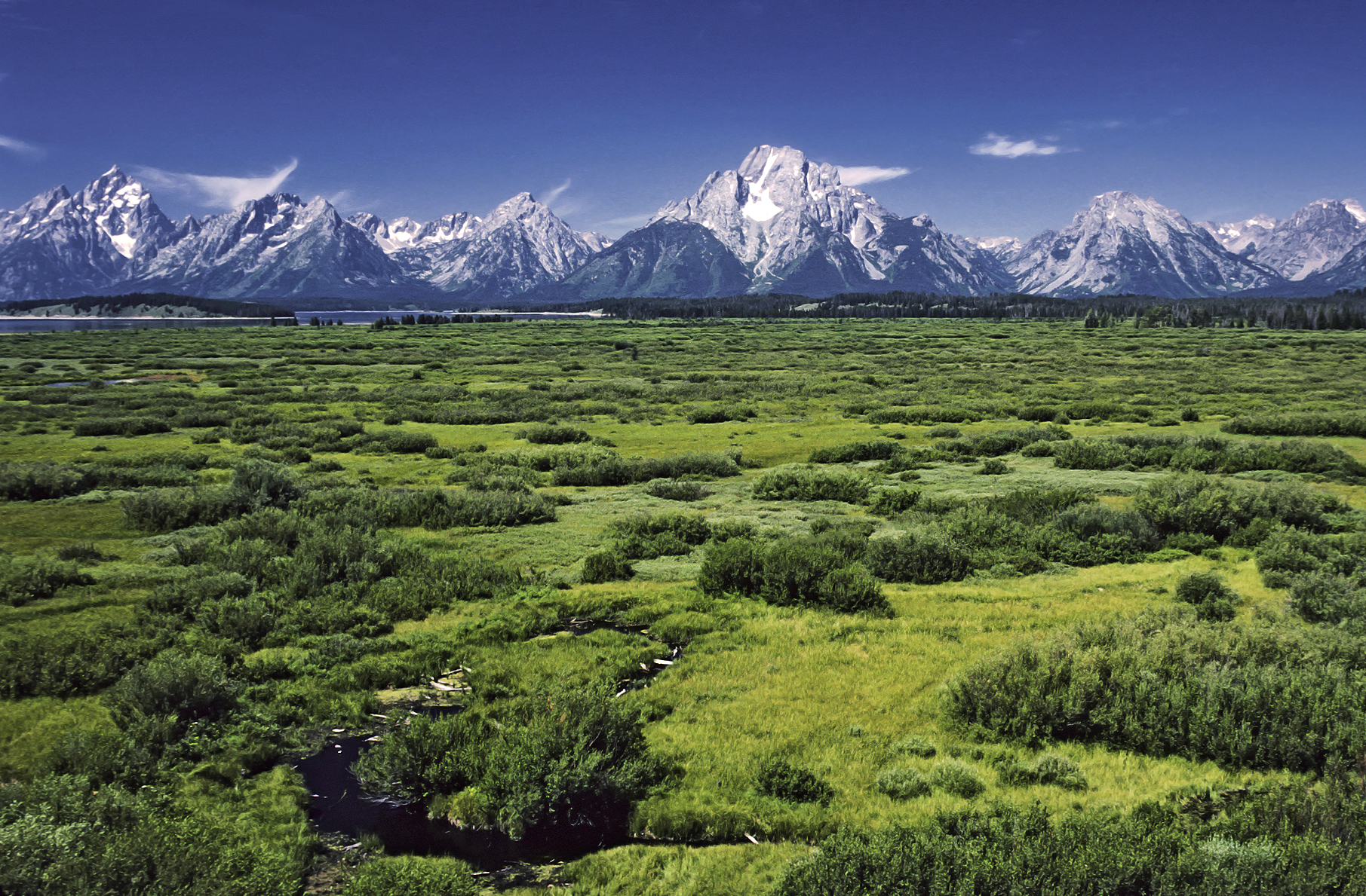 Jackson Lake Lodge outlook in the Grand Teton National Park, Wyoming, United States. View over the Willow Flats area to the Teton Range with the Mount Moran and his Skillet Glacier (12605 ft) in the middle.